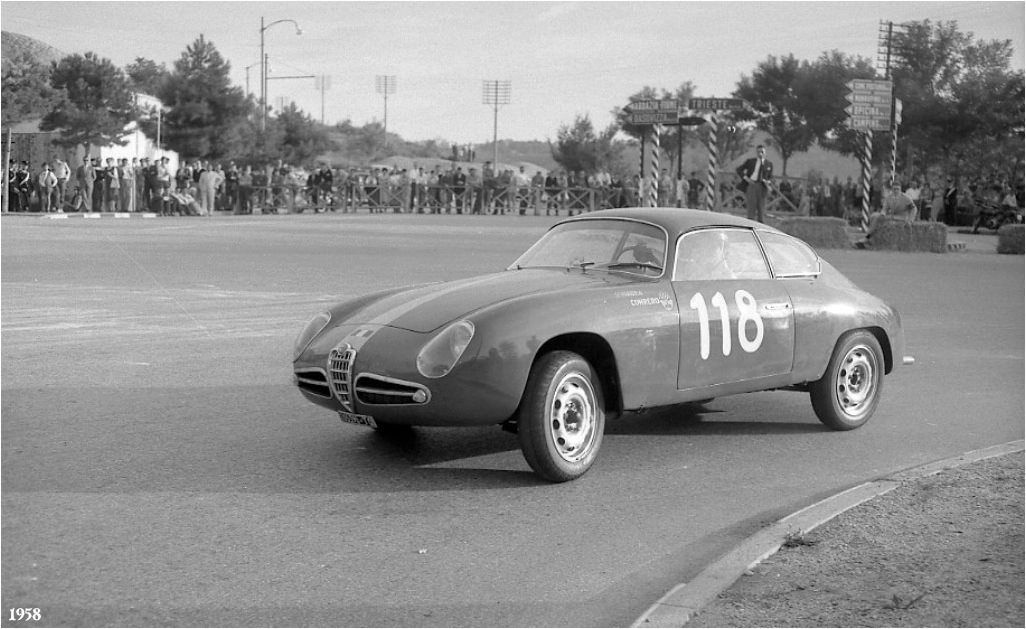 Entry #118 in the Trieste-Opicina hillclimb on 5 October 1958 was Ada Pace who also won the race.[1]